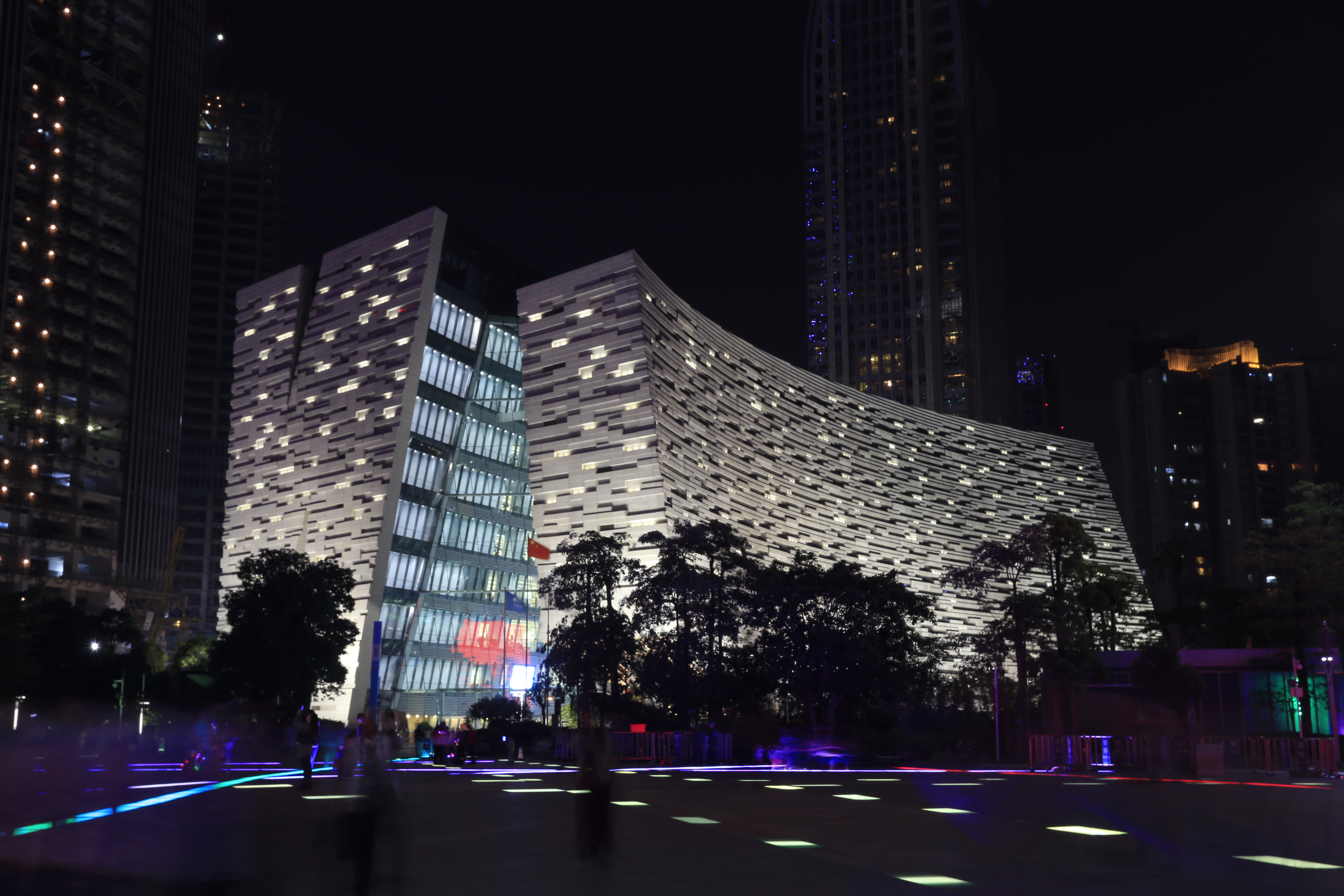 Guangzhou Library